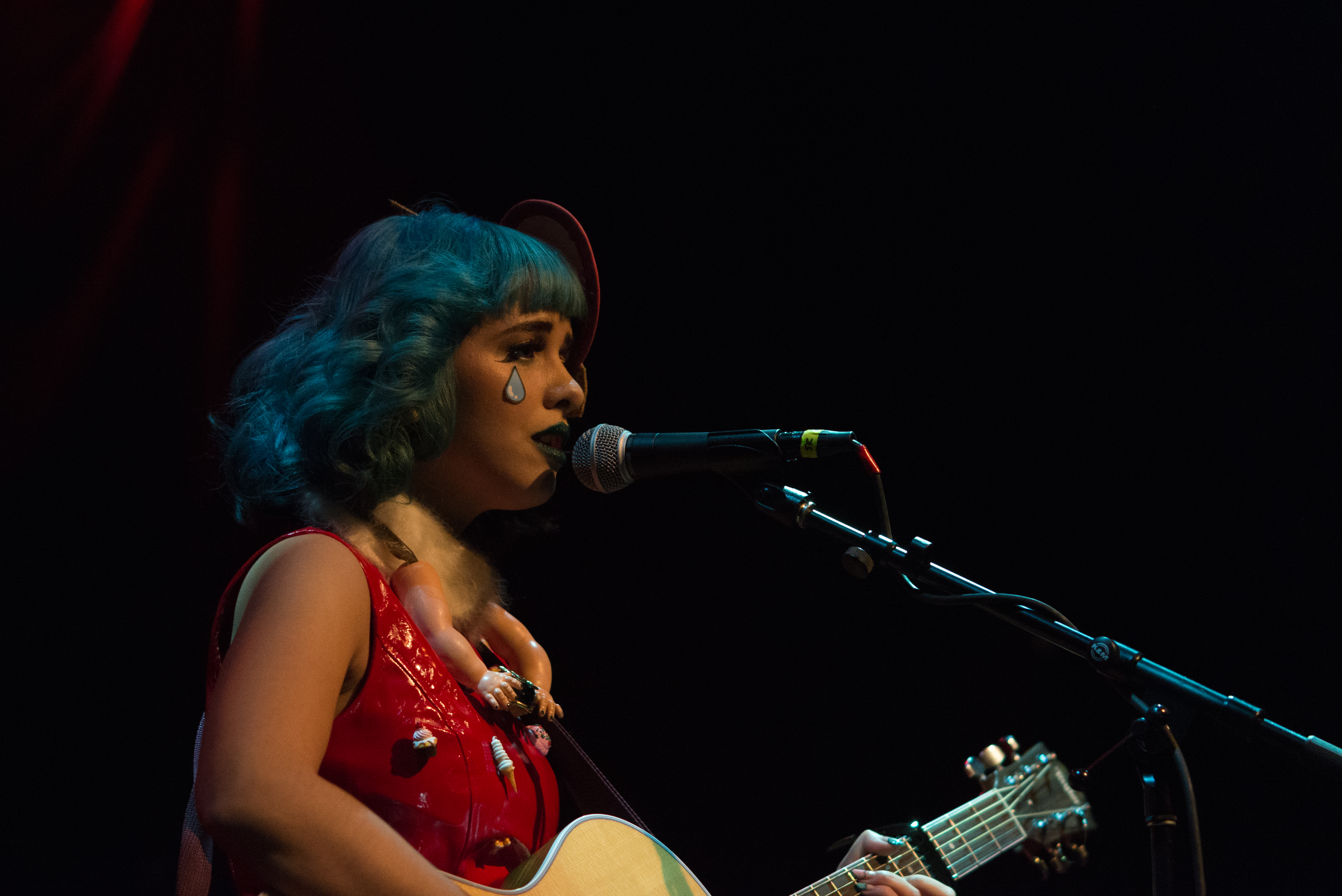 Melanie Martinez at Gramercy Theater, 2/15/2014